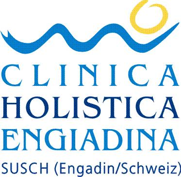 Clinica Holistica Engiadina Susch